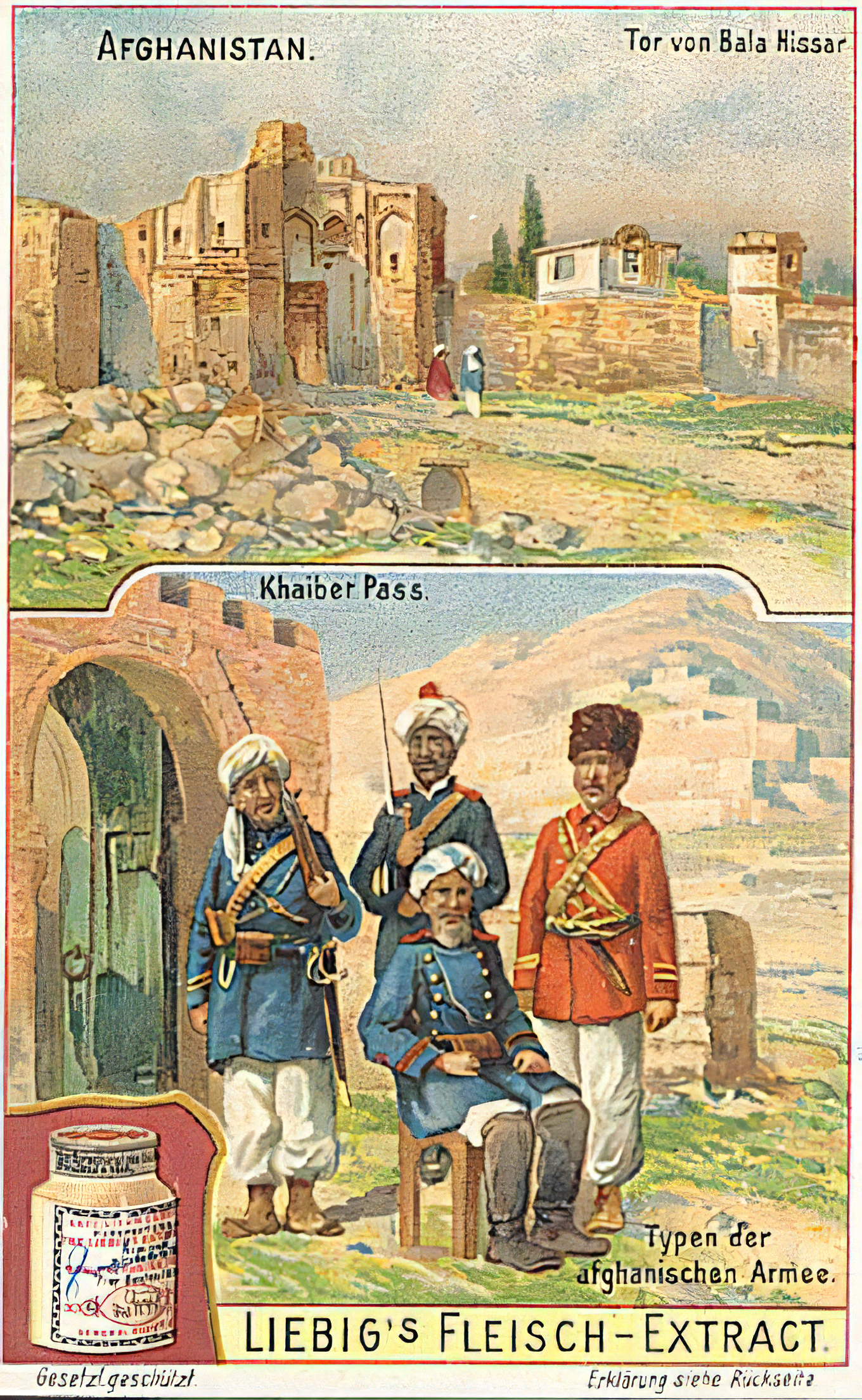 D - Bala Hissar (fort) and Khyber Pass at Hindu Kush and People of the Afghan Army, written "Typen der afghanischen Armee") (below) - shown on a Liebig's Meat Extract advertising card (in German language)